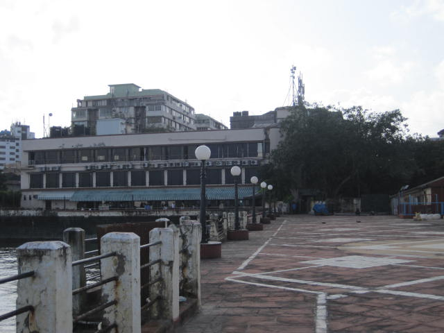 The picture shows the Radio Club, Bombay and the pier.